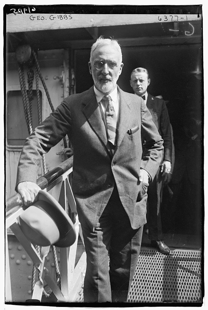 George Fort Gibbs. Photo from Bain News Service, in Library of Congress.